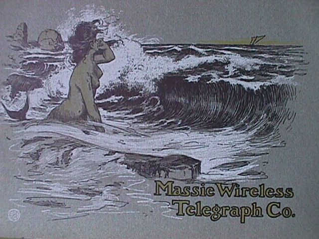 Massie Wireless Telegraph Company, owner of Massie Wireless Station.